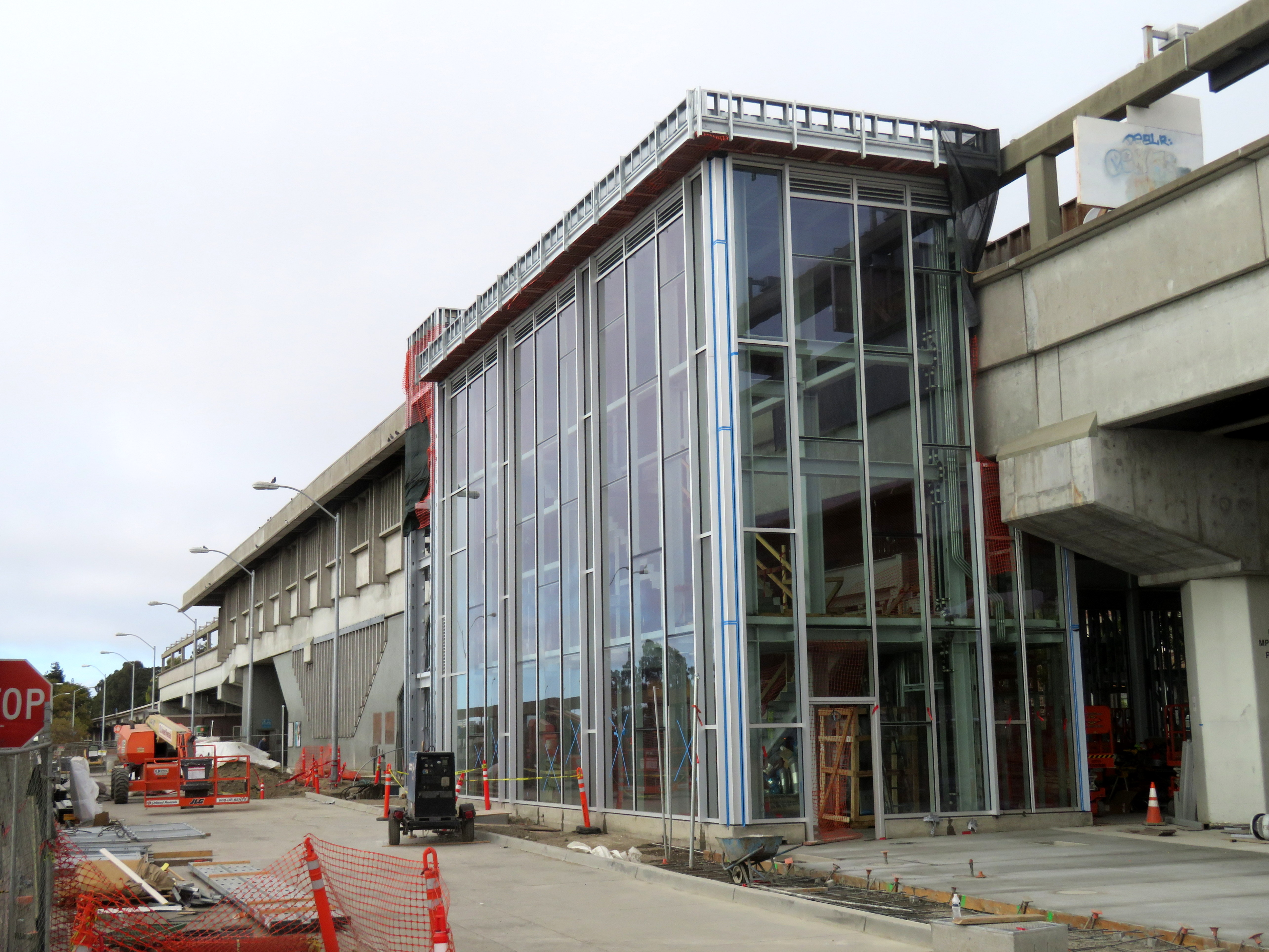 Construction work at El Cerrito del Norte station in October 2019